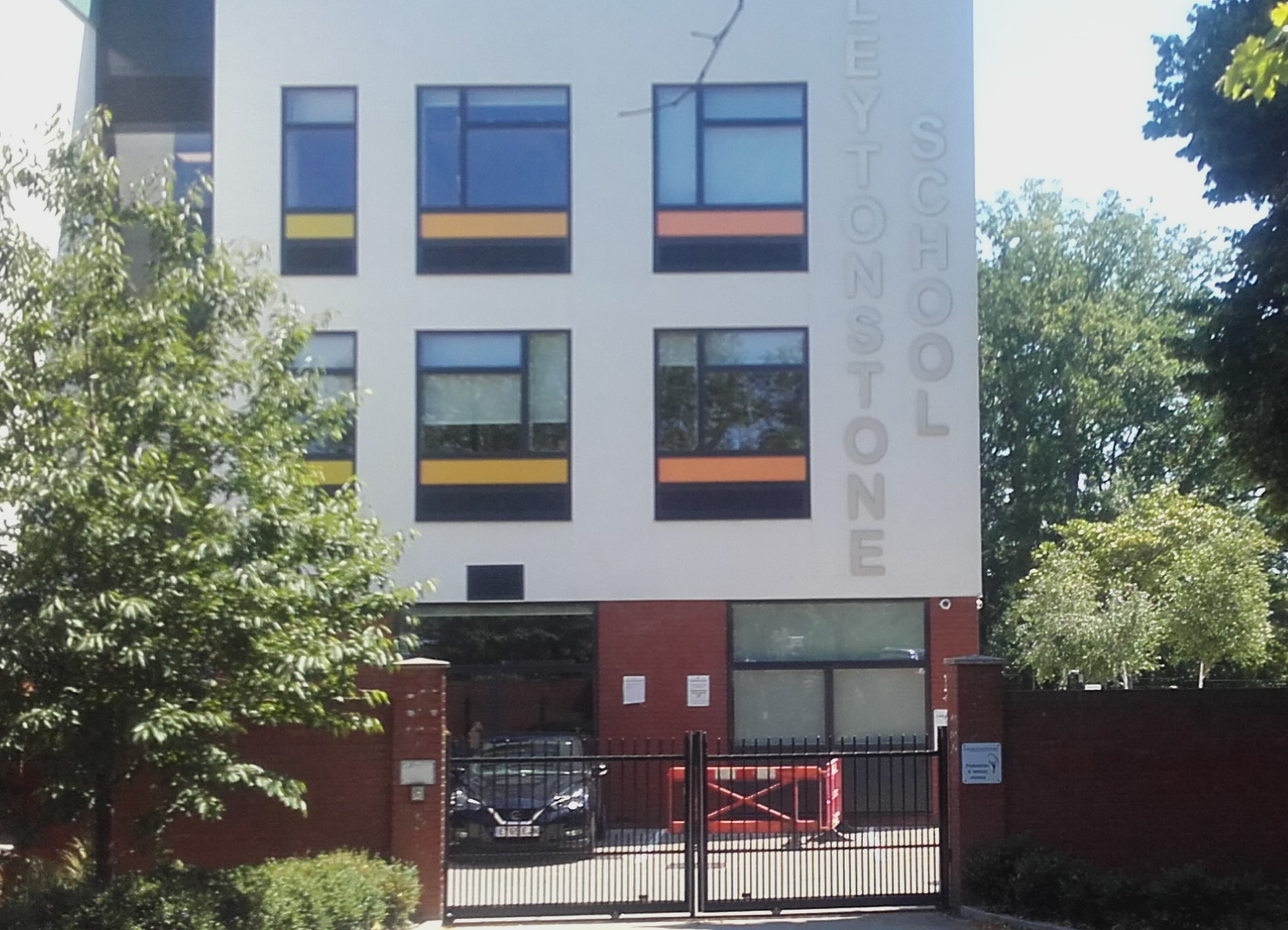 Leytonstone School; modern buildings by the James Lane entrance.